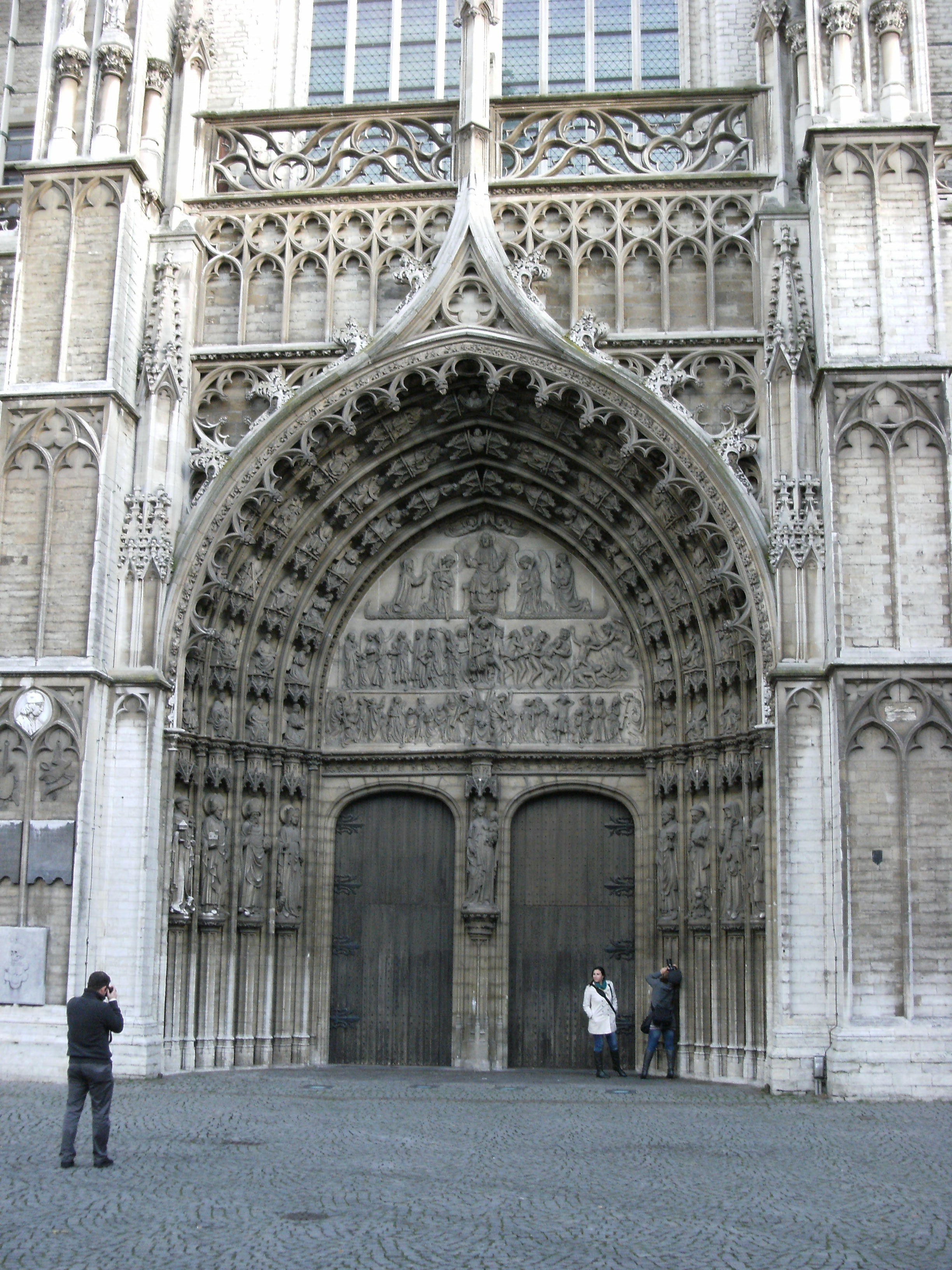 Doors Onze Lieve Vrouwekathedraal, Antwerpen.